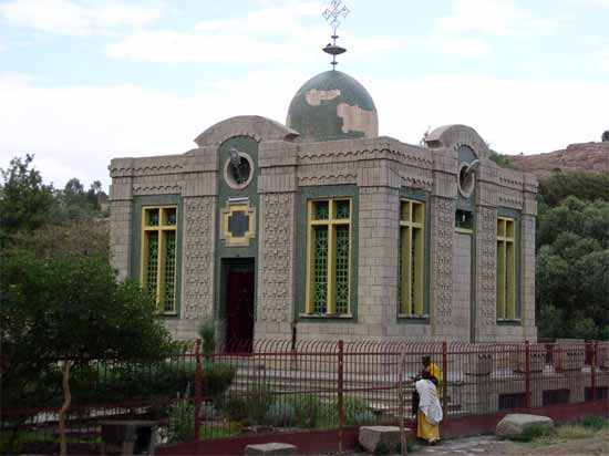 Outbuilding supposedly containing the Ark of the Covenant at Tzion Maryam church in Axum Ethiopia.